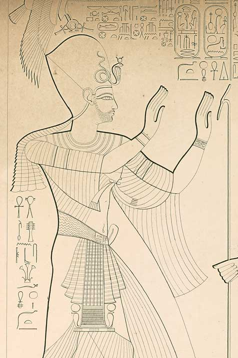 Drawing from tomb KV6. Closeup of an unshaven pharaoh Ramesses IX while worshipping a god. Valley of the Kings, Reign of Ramesses IX, 20th Dynasty, New Kingdom. [Lepsius' Denkmaeler, Abtheilung III (Band VII), pl. 235]